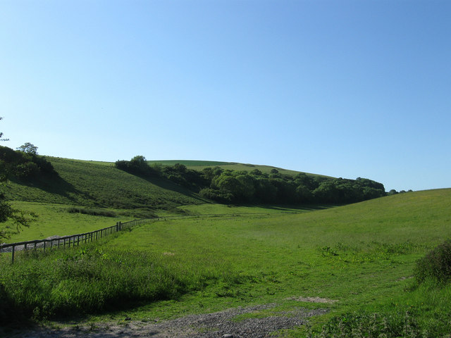 Harrow Hill View of the south eastern side of the hill from the foot of New Barn Down itself a spur of the hill. Harrow Hill is famous for the scars caused by Neolithic flint mines as well as the remains of a Bronze Age settlement and being an early Saxon pagan religious site.